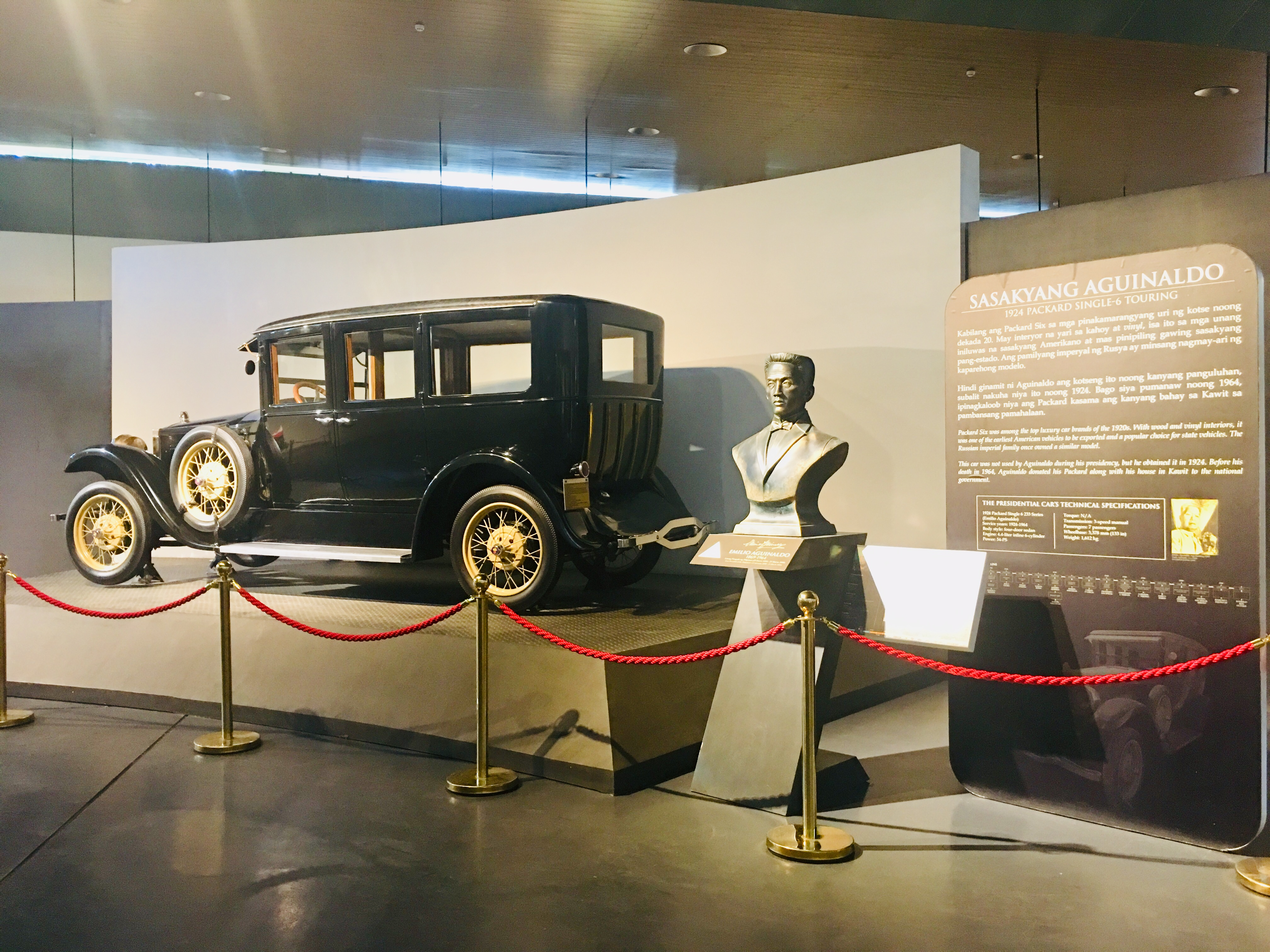 Presidential car of Emilio Aguinaldo.Description on Display is wrong. This is a 1924 Packard Six (not Single Six) Limousine (not Touring car)